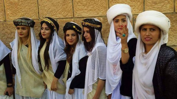 Yazidis